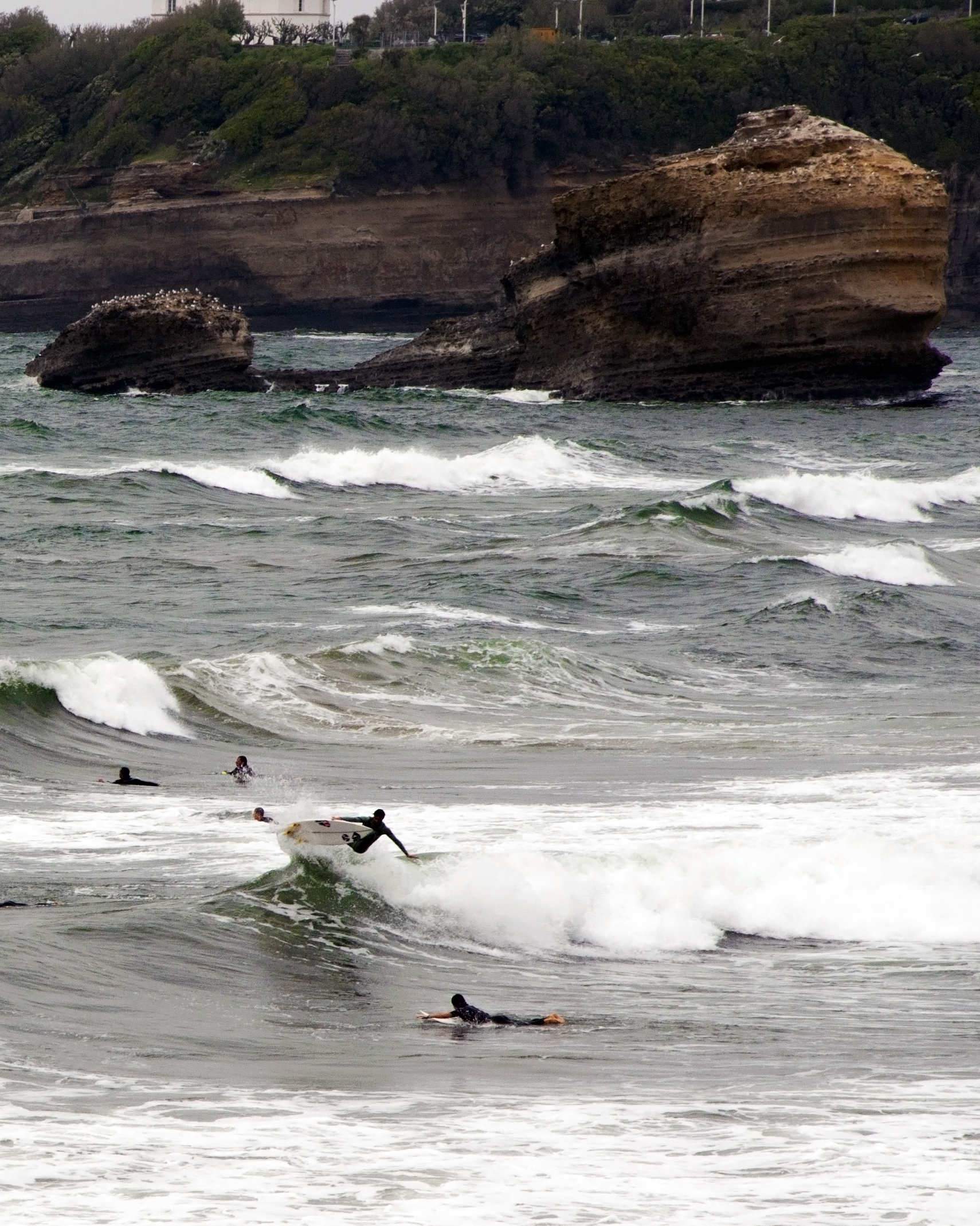 Surfing in Biarritz.